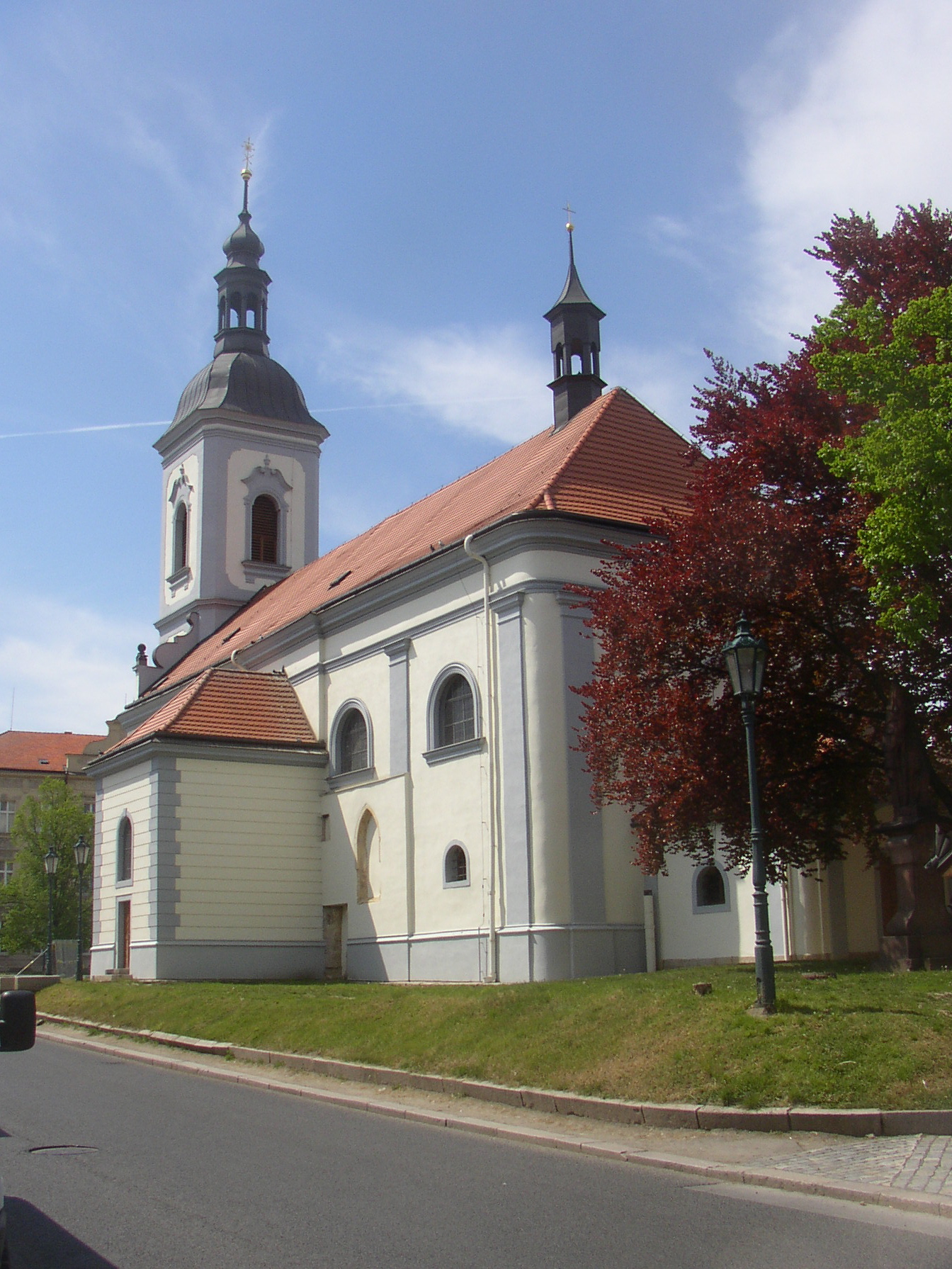 Church of SS Peter and Paul in Říčany, Prague-East District, Czech Republic.